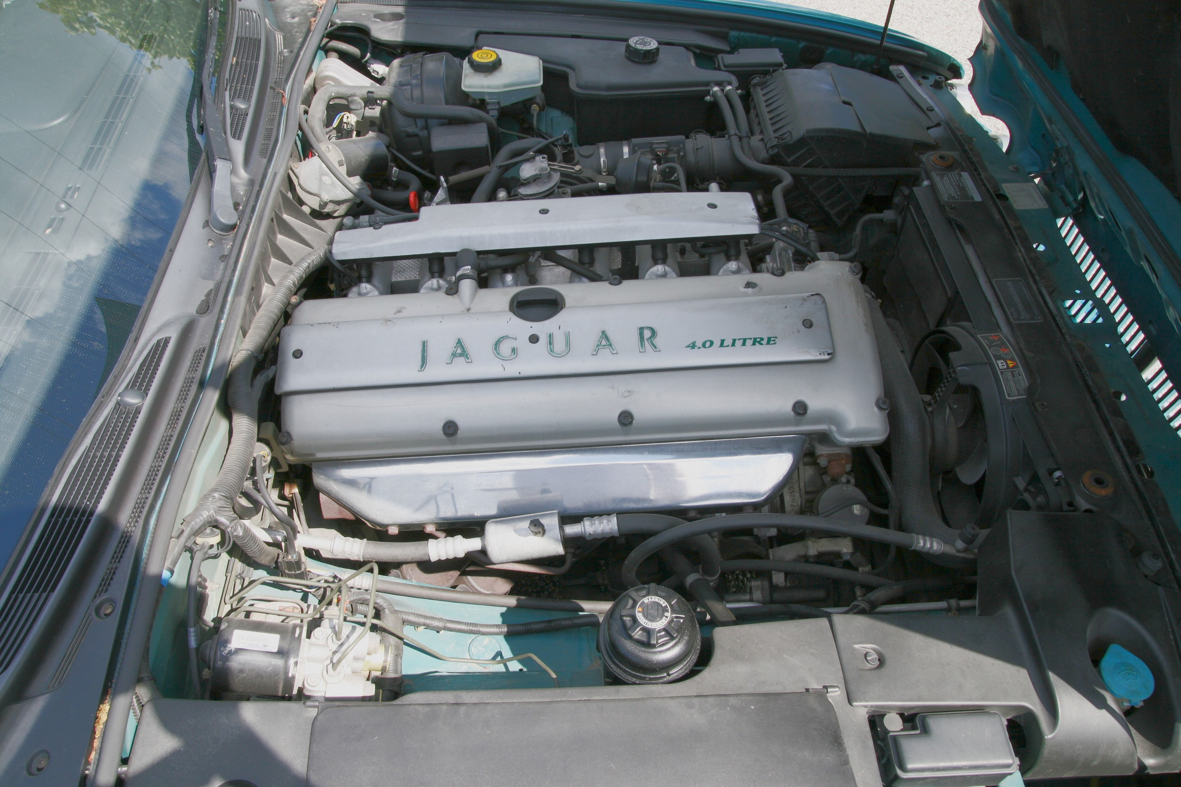 Right-hand side view of the engine bay of a 1995 Jaguar XJ, showing the naturally aspirated 4.0 liter AJ16 engine. The chromed exhaust manifold cover reveals this as a 1995 model year car.